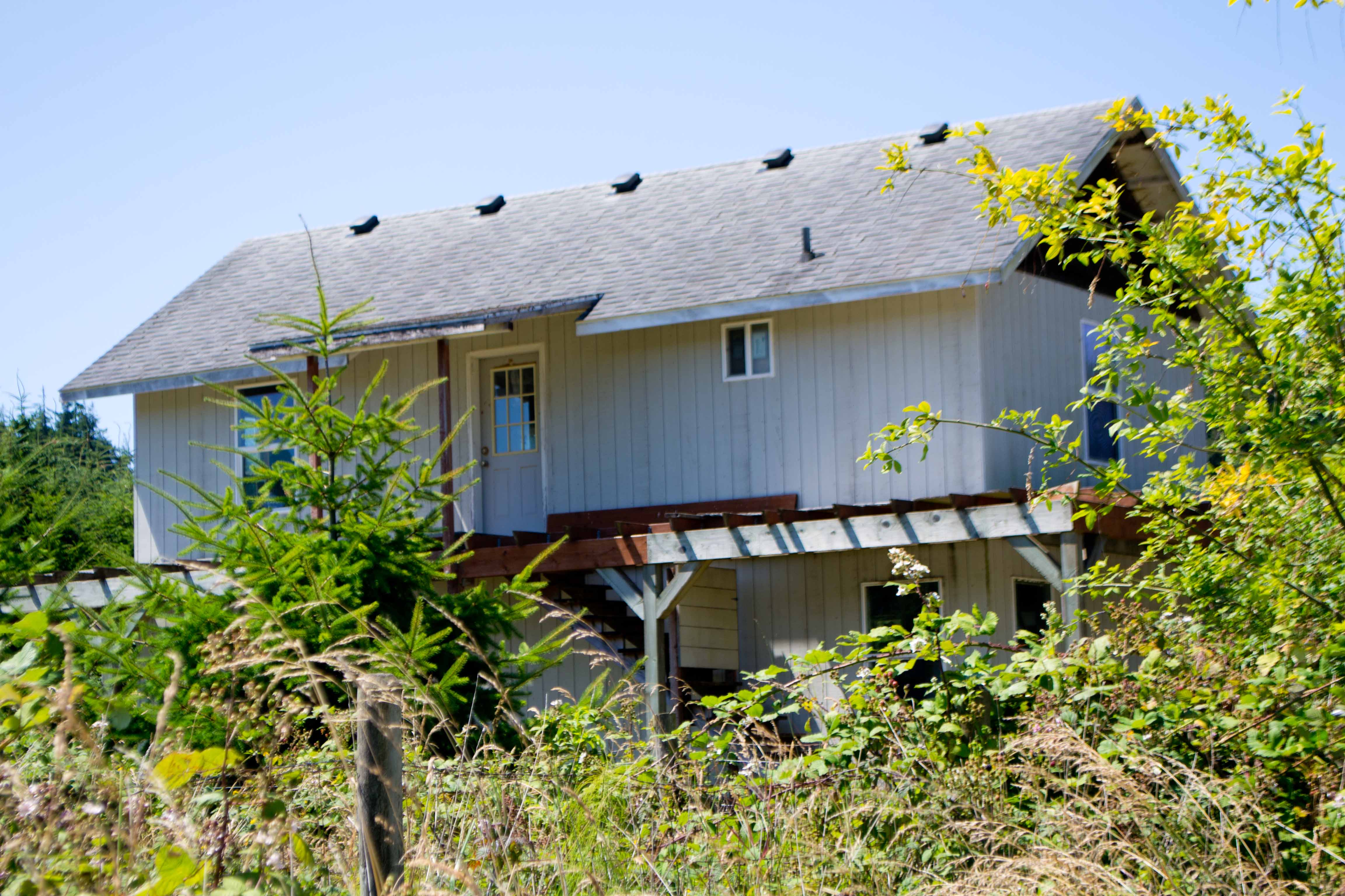 Speculation continues regarding the site of the hotel. Members of the Sixes Grange confirmed that this building is the renovated hotel, now an apartment complex.